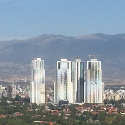 View above municipality Aerodorom